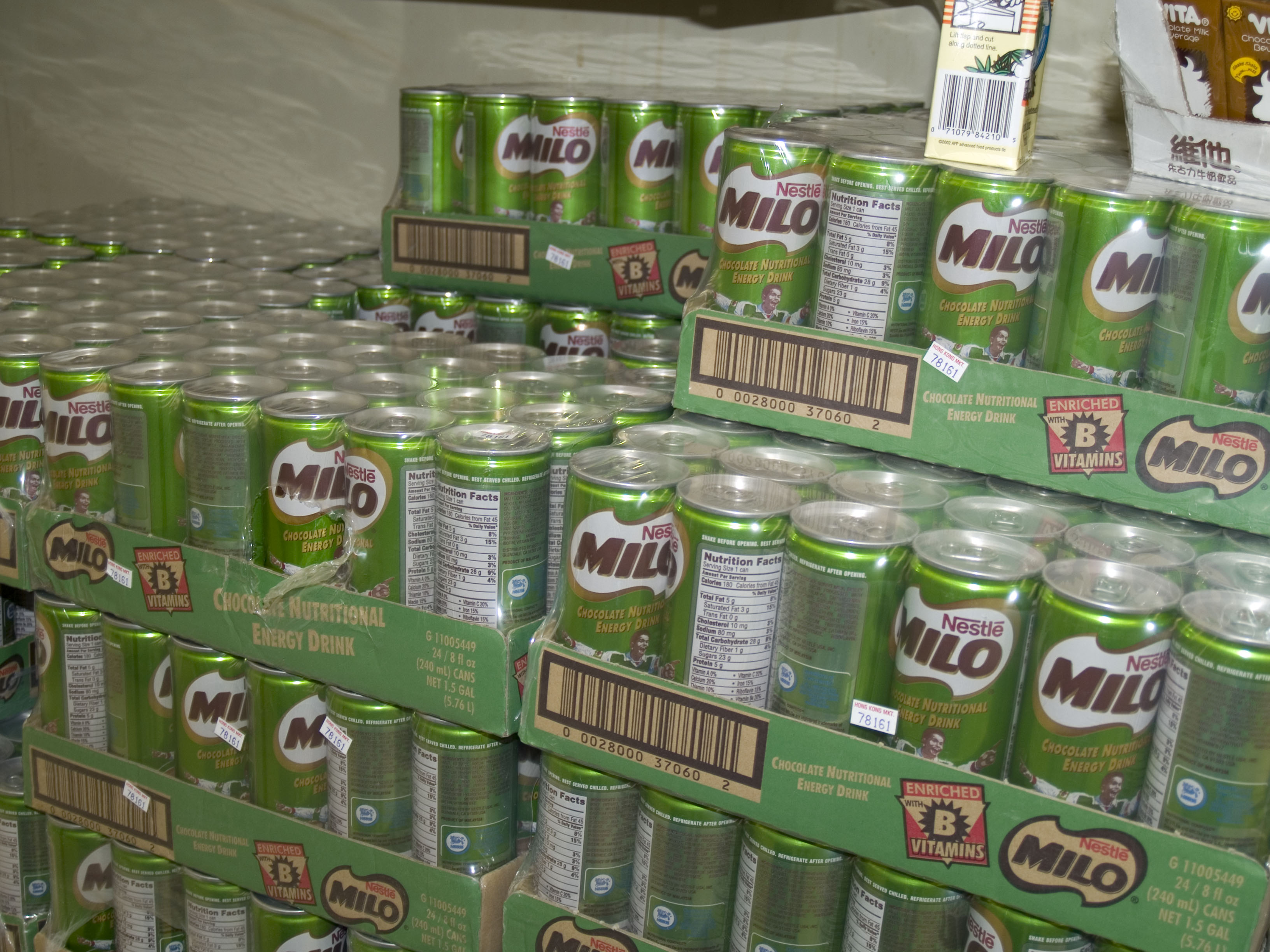 Milo chocolate malt drink packaged in cans being sold at a Hong Kong Supermarket in Northwest Houston. The picture was taken by myself using my digital camera for upload to the Milo article.